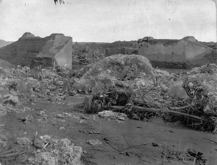 The ruins of Fort Anjer, West-Java, after the eruption of the Krakatau in 1883.